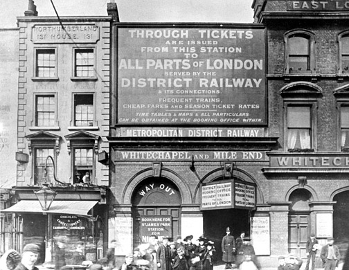 Whitechapel tube station, London